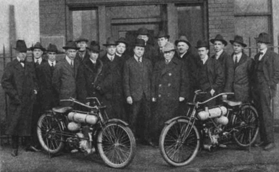 Cleveland Motorcycle Manufacturing Company Sales Advertising and Administration people at a conference in March 1917.